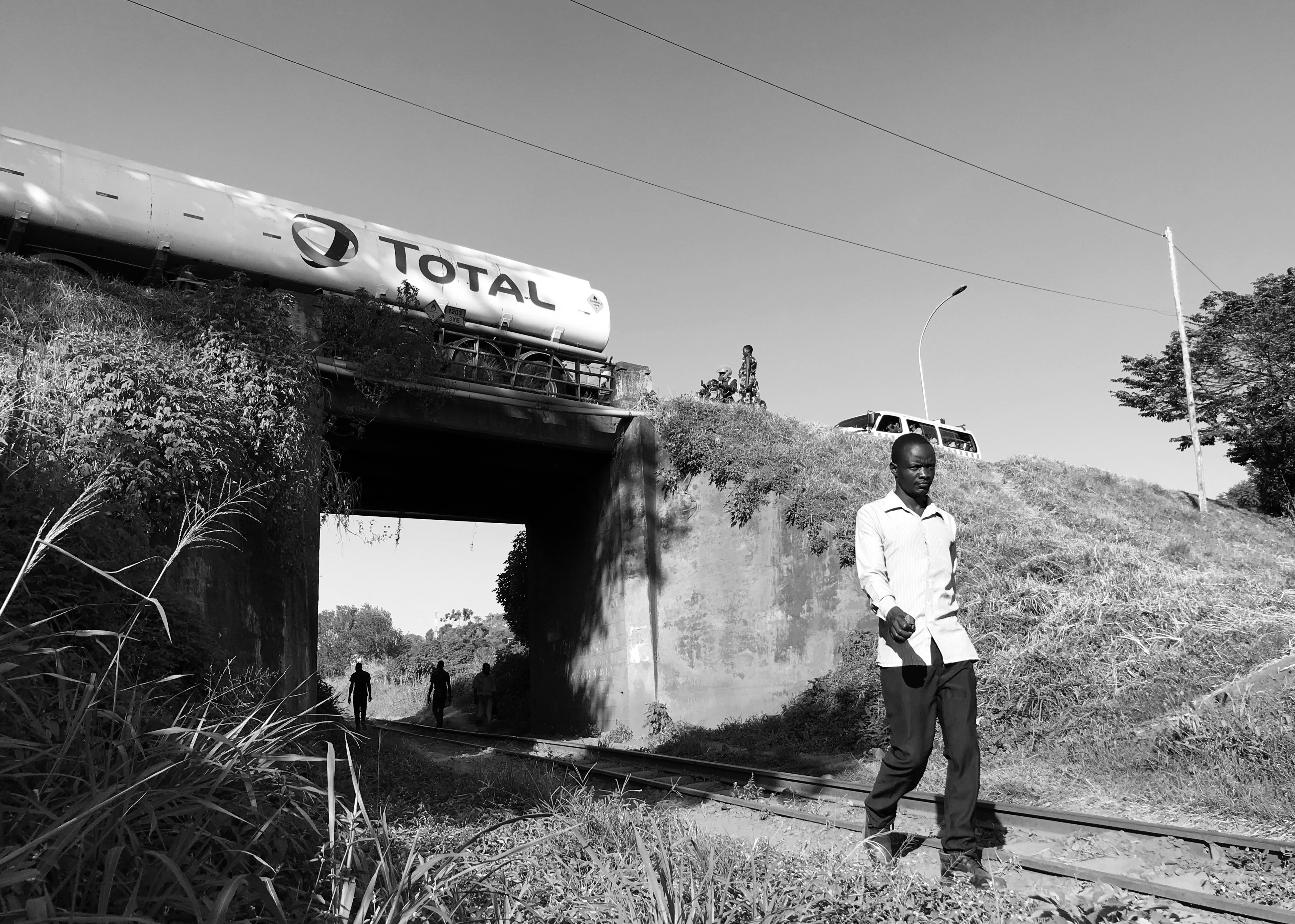 A man walks along the train tracks below a train bridge in Nakawa, Kampala This is an image with the theme "Africa on the Move or Transport" from: Uganda